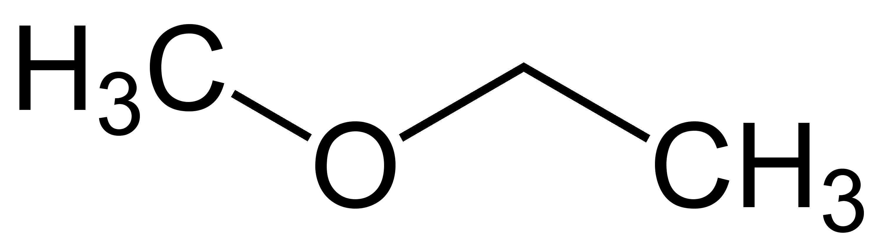 Ethylmethylether_Structural_Formula